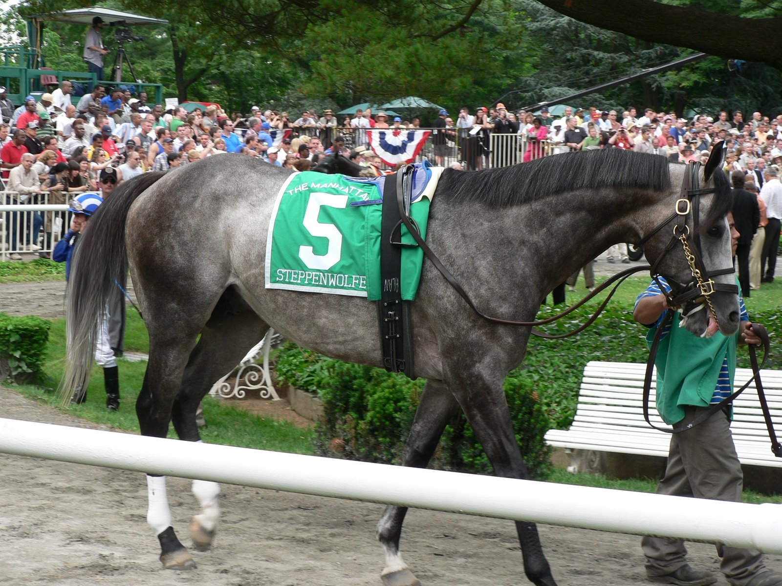 Thoroughbred racehorse, Steppenwolfer, at 2007 Belmont Stakes.